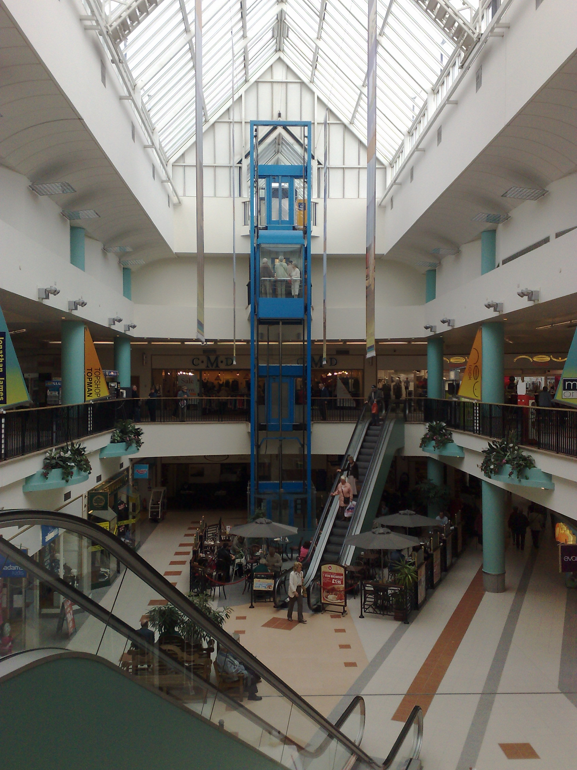 The interior of the Brunswick shopping centre, Scarborough, North Yorkshire showing the Upper and Lower 'Malls', the glass elevator to all levels, and two of the three escalators.